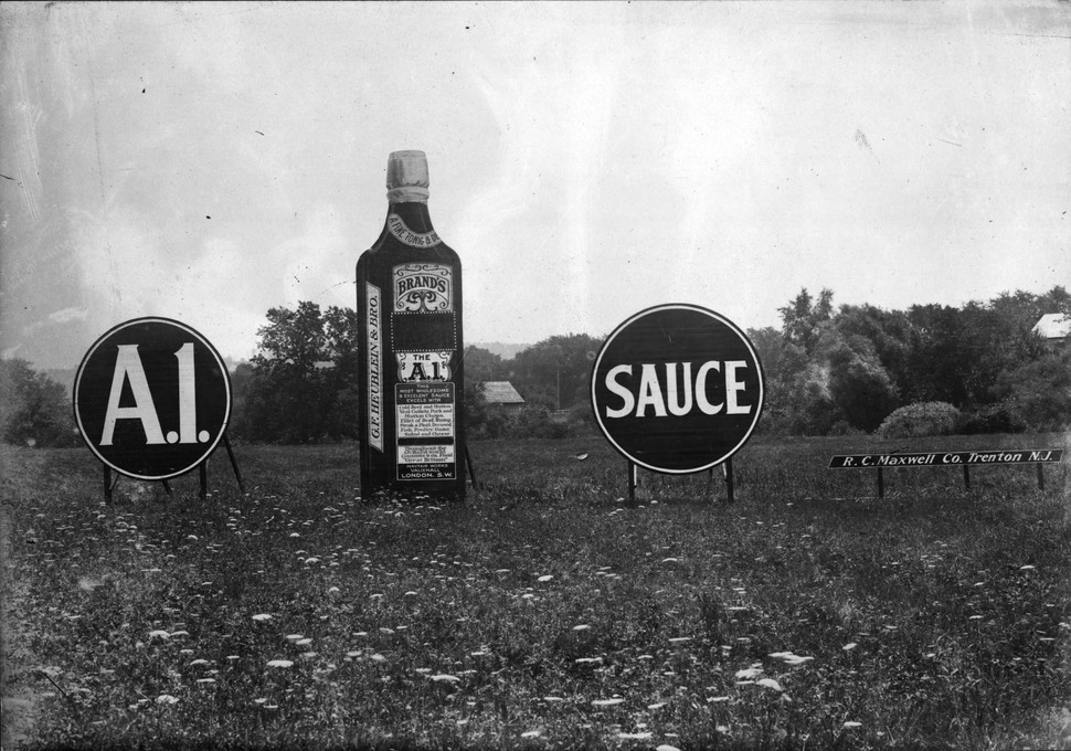 A1 steak sauce advertising signs in a field